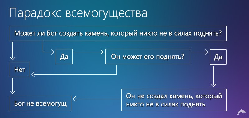 Flowchart of the omnipotence paradox, in Russian